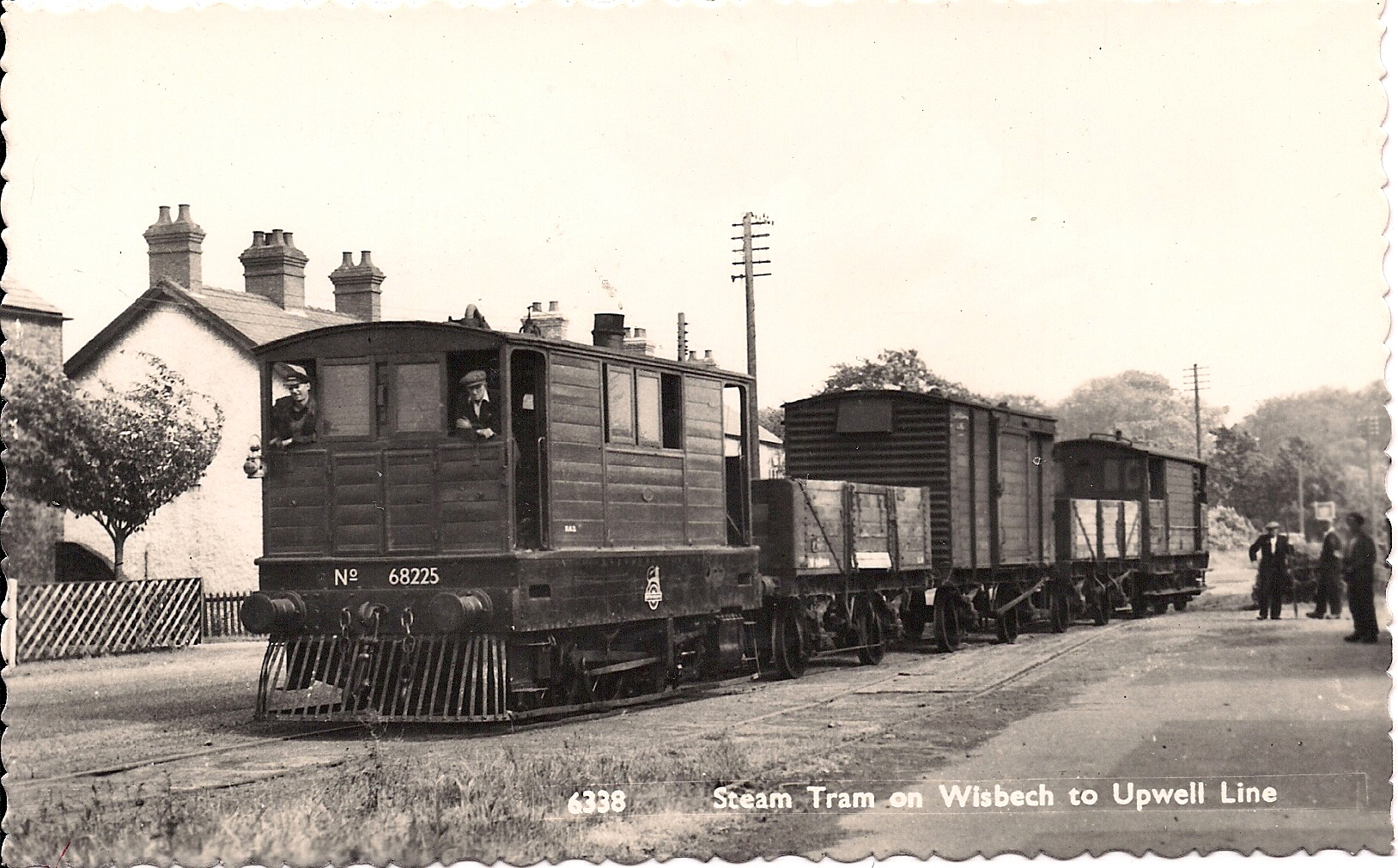 Wisbech and Upwell Tramway Class J70 locomotive number 68225 running without sideplates.